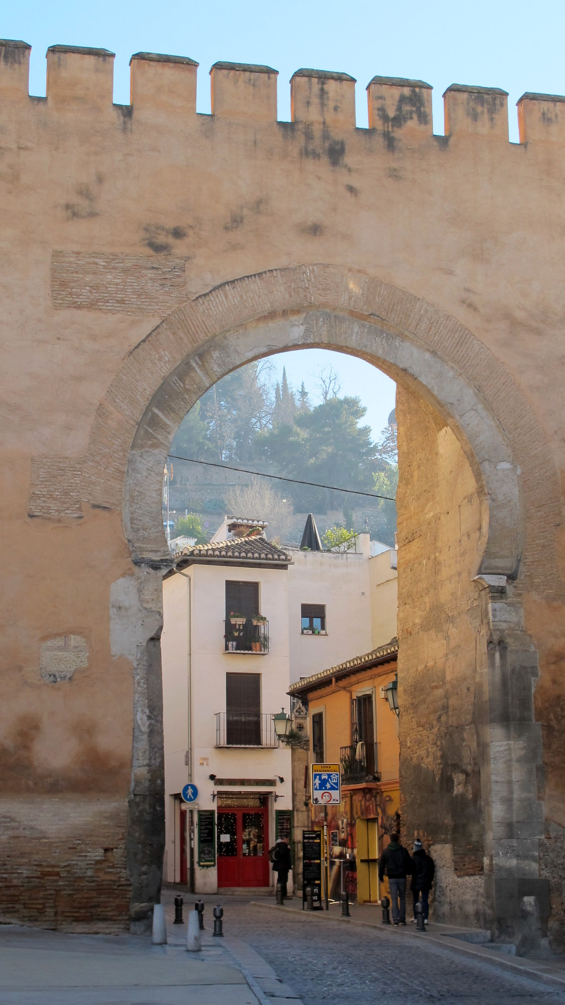 Granada, Puerta de Elvira old main city entrance